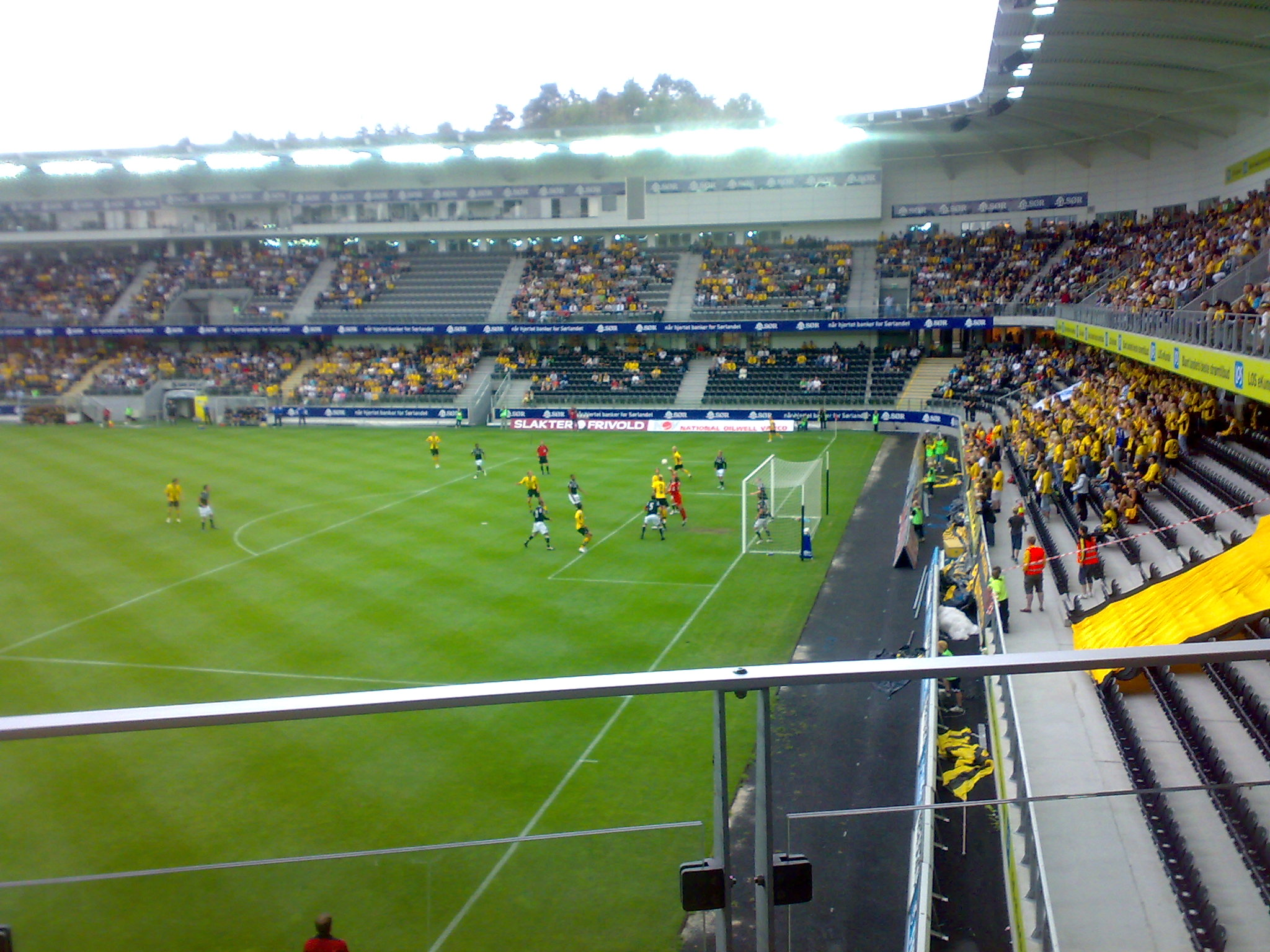 IK Start in match vs Moss at Sør Arena. Kristiansand, Norway